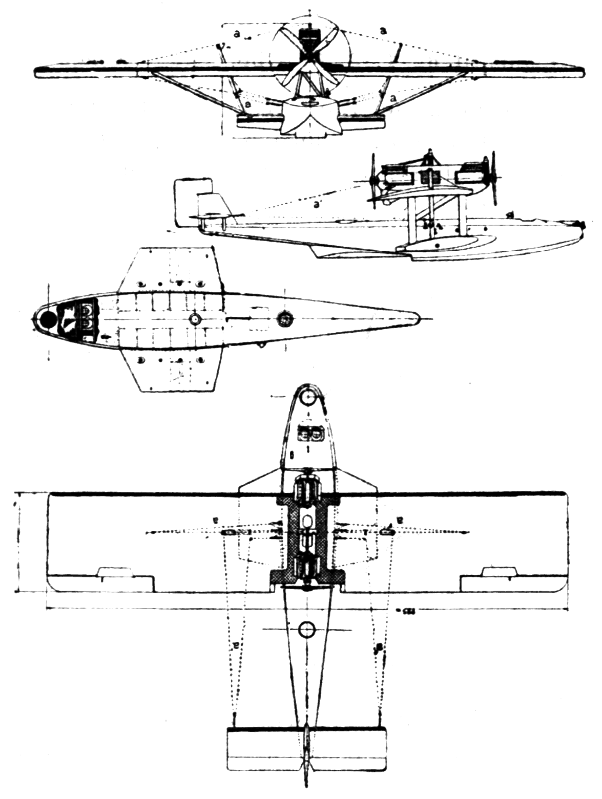 Dornier Wal 3-view drawing from Le Document aéronautique June,1926